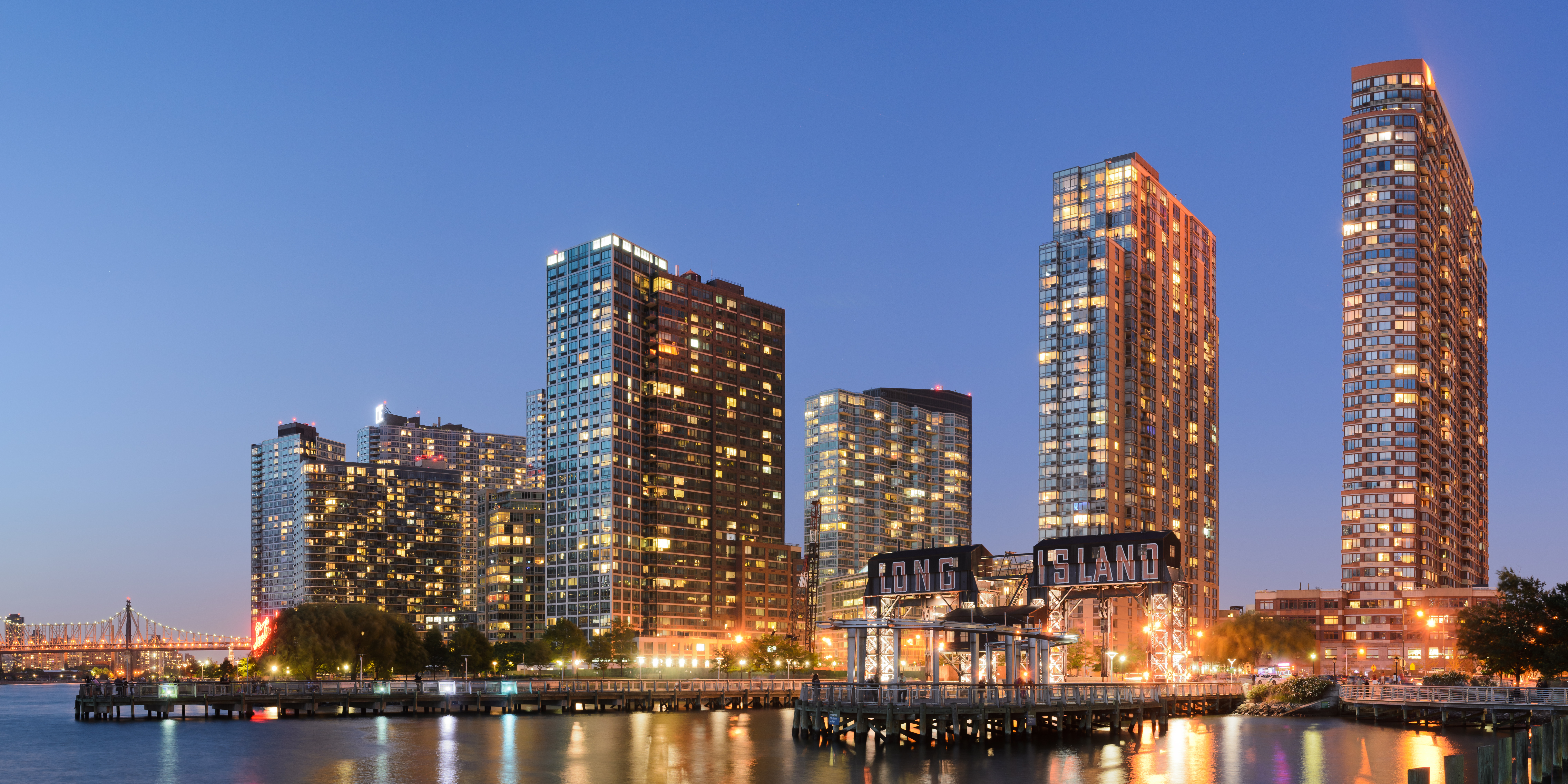 Three-segment panorama of Long Island City, Queens, New York City.